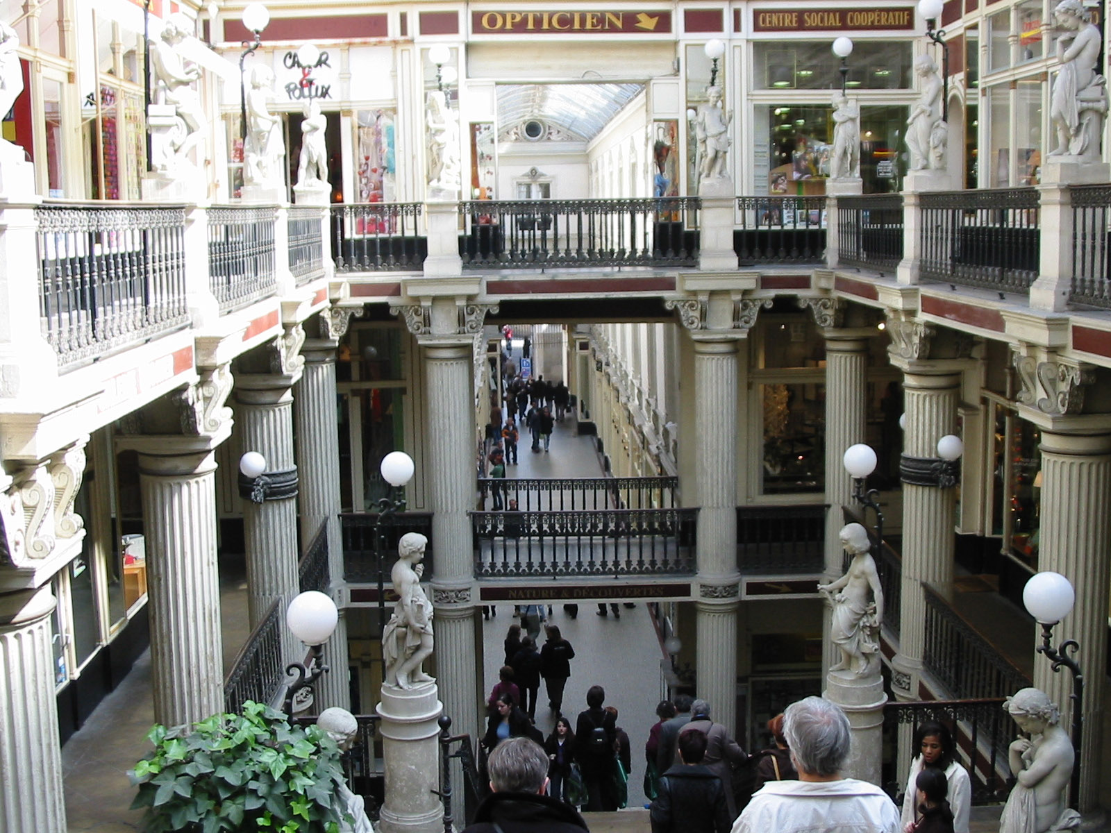 Nantes (France): the three levels in the "Passage de la Pommeraye"